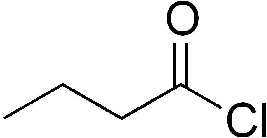 chemical structure of butyryl chloride, butanoyl chloride